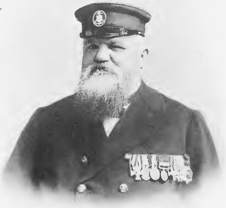 Captain Adalbert Krech (1852-1907), Captain of the Valdivia during the German deep sea expedition 1898/99